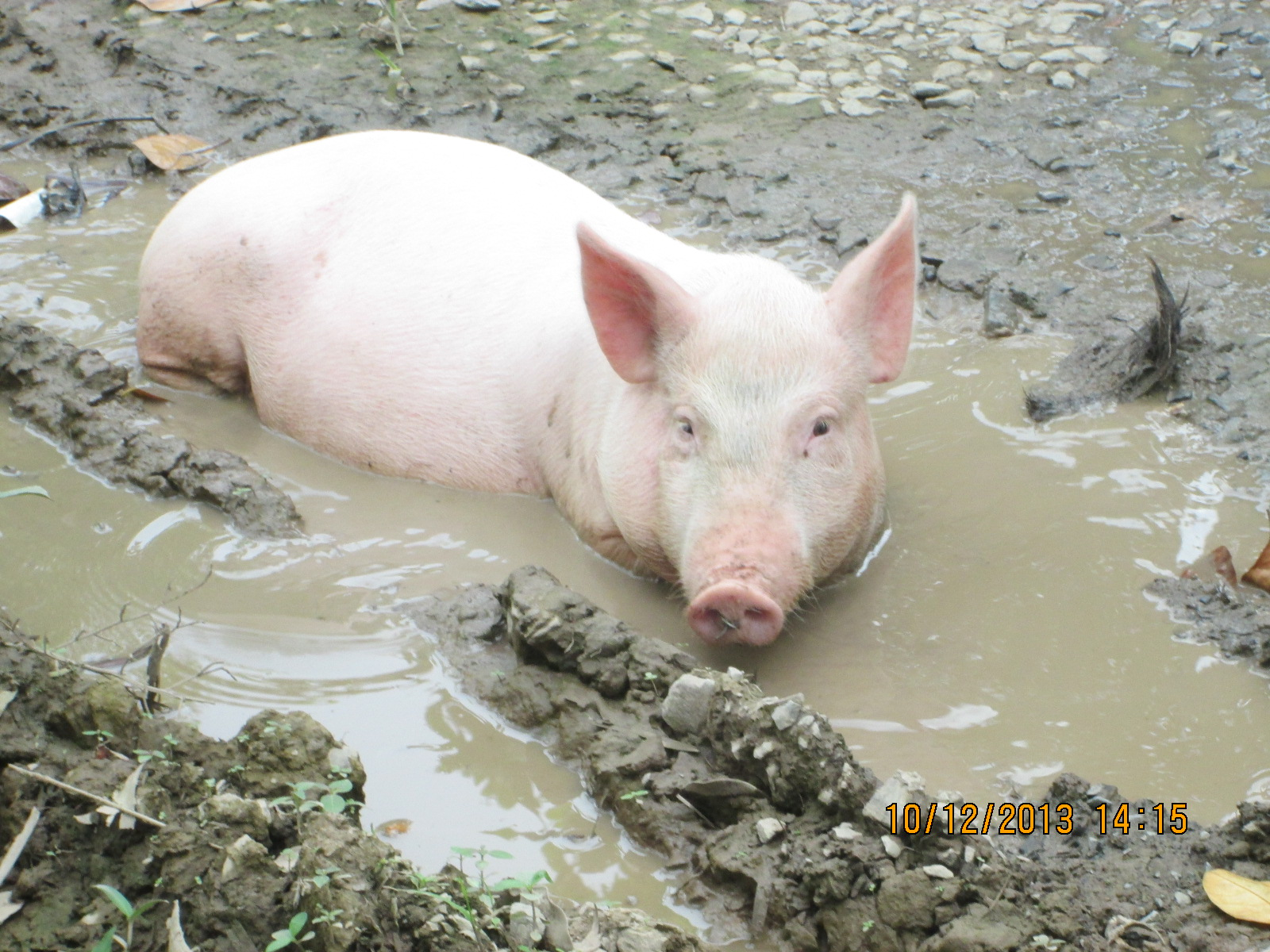 A pig surprised by tourists in Ben Tre village.